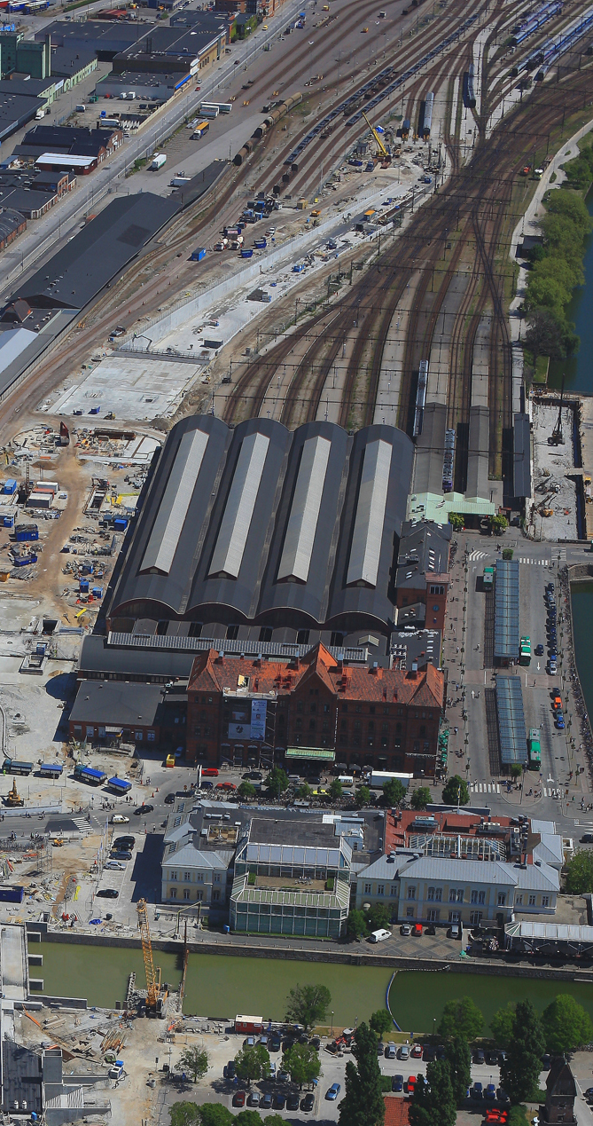 Malmö Central Station seen from above. By the time of this picture, the underground station part is under construction. Photo by Perry Nordeng, Citytunneln.